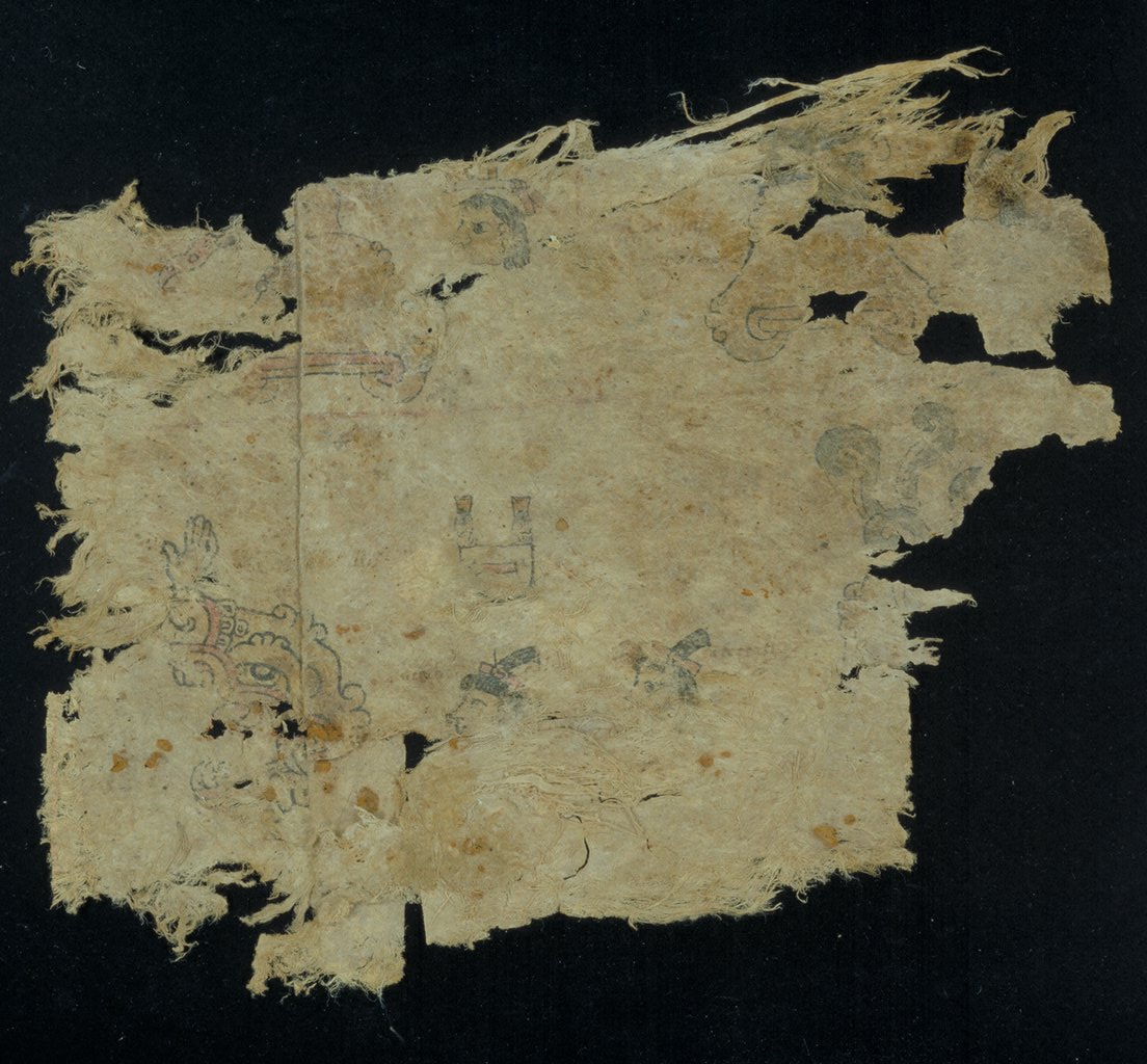 The Matrícula de tributos (Tribute roll) records in pictographic writing the tributes that subject towns paid to Mexico-Tenochtitlan, the center of the triple alliance of Mexico, Tetzcoco, and Tacuba in the period just before the conquest of Mexico by the Spanish. The roll was very likely copied or elaborated on from a pre-Hispanic original circa 1522-30 by order of the conqueror Hernán Cortés, who wanted to learn more about the economic organization of the alliance's empire. Each page of the Matrícula represents one of 16 tributary provinces. The main city of each province appears first, at the bottom left of the page, followed toward the top by the towns or altepetl subject to it. Each altepetl is represented by its toponymic glyph. When the left margin is full, the right margin follows, and finally the upper row. Within this frame of toponymic glyphs, the items paid by the region are represented visually, in rows, and the expected quantity of each item is registered, using the Nahuatl system of arithmetic. With its several hundred toponymic glyphs and detailed tributary record, the Matrícula de tributos is a valuable document for the study of the political geography and economy of preconquest Mexico, Nahuatl place names, the Nahuatl numbering system, and the economic wealth of the empire. Codex; Indians of Mexico; Indigenous peoples; Memory of the World; Mesoamerica; Nahuatl language